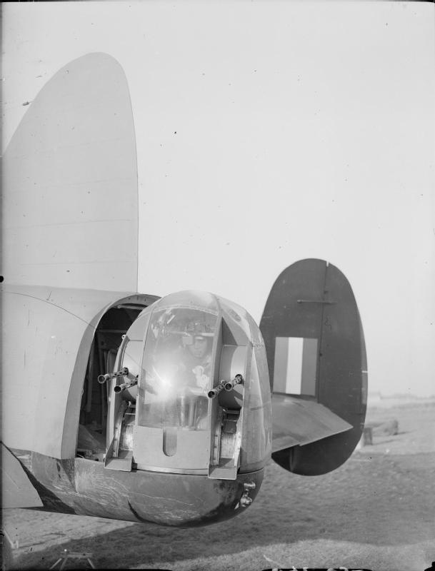 Aircraft of the Royal Air Force 1939-1945- Avro 679 Manchester. An air gunner, in the Nash and Thompson FN4A tail turret of an Avro Manchester Mark I of No. 207 Squadron RAF, trains his four .303 Browning machine guns on the photographer at Waddington, Lincolnshire.